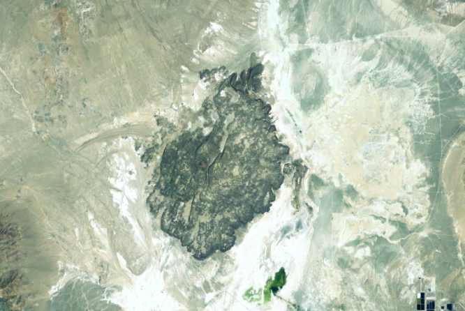 Screen capture from NASA World Wind software of Fumarole Butte, Utah